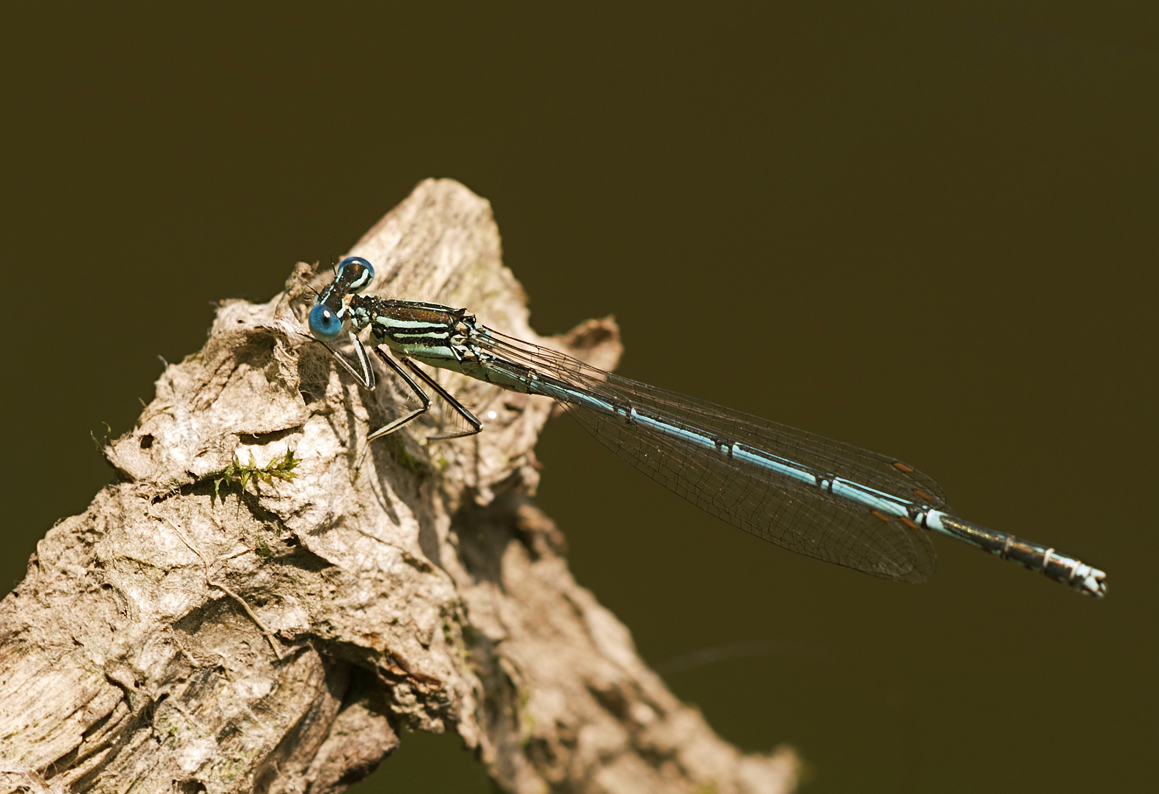 Male White-legged damselfly (Platycnemis pennipes), Chemnitz. Germany